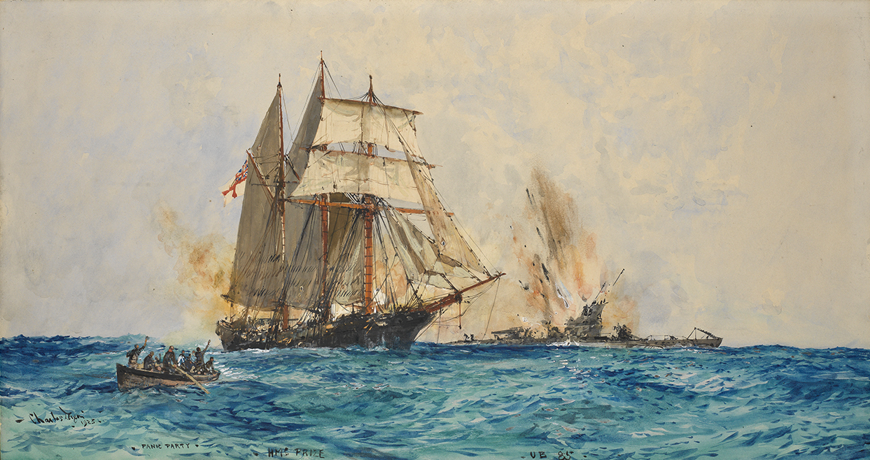 The Q ship, HM Schooner Prize, engaged with the German submarine U93, 30th April 1918 PAJ3082